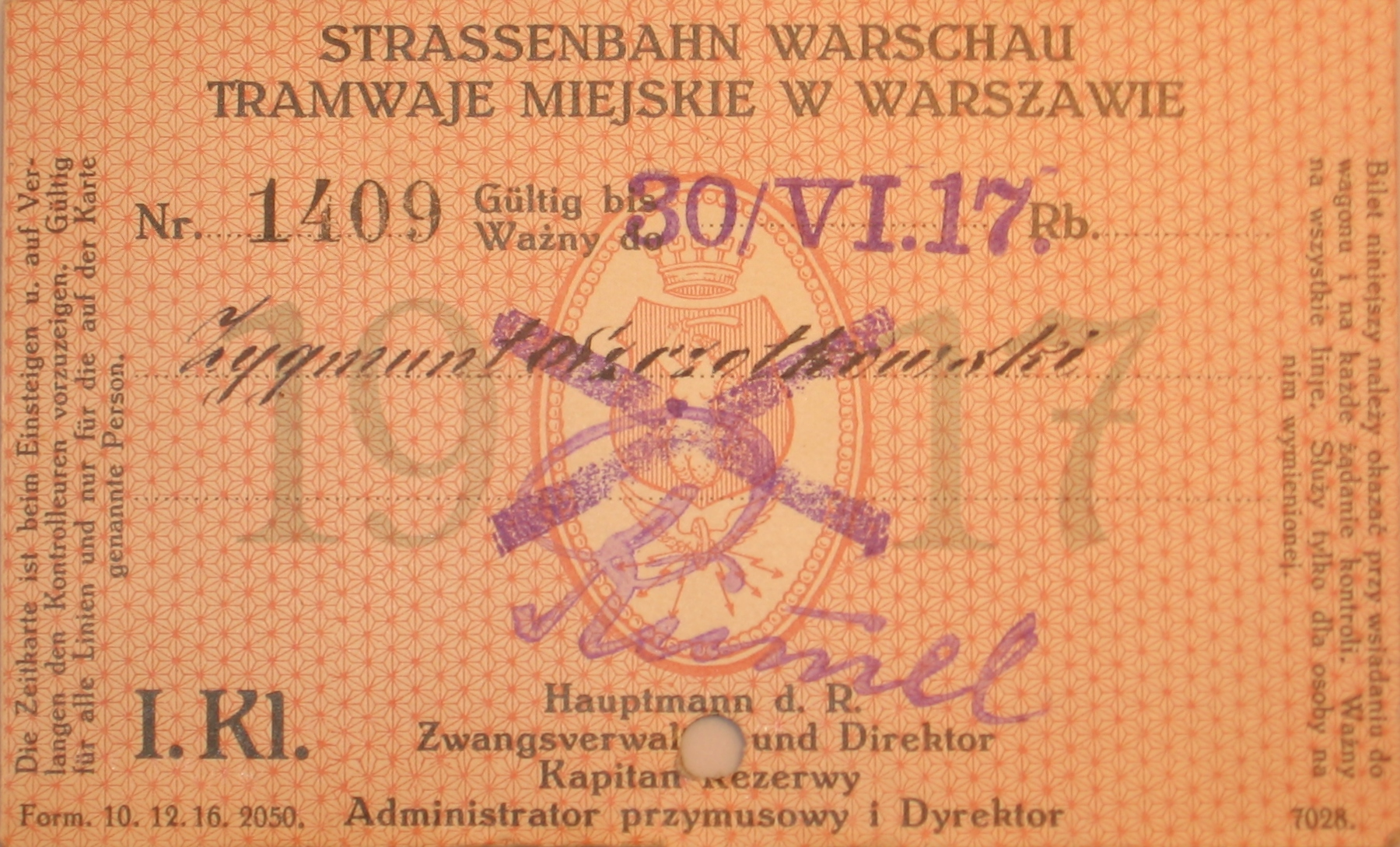 seasonal personal ticket (valid to the end of June 1917, owner: Zygmunt Szczotkowski) for trams (1st class) in Warsaw, Poland